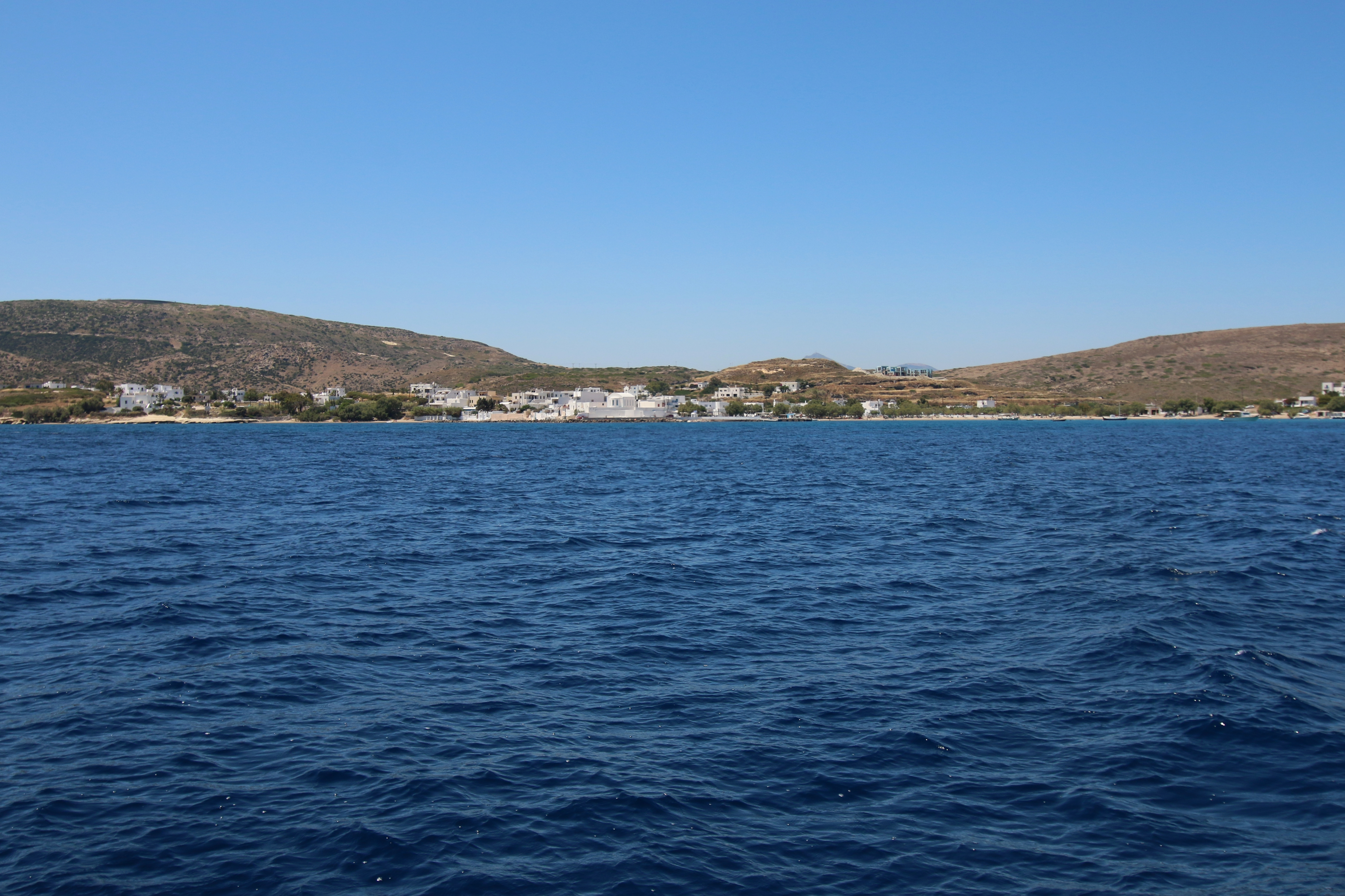 Pollonia, Milos. View from the boat.